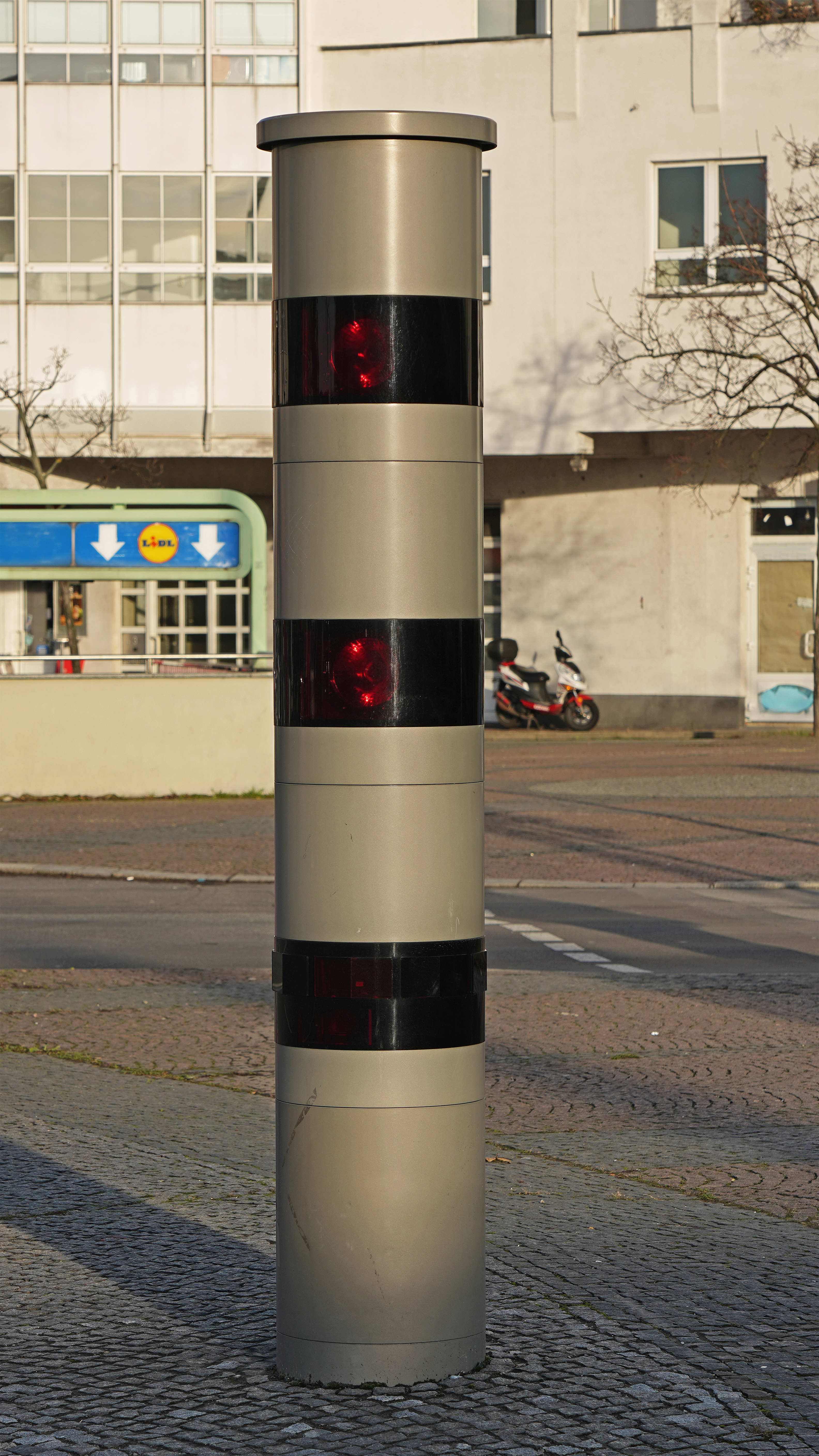 Speed and red light camera at Innsbrucker Platz, Berlin (Germany)